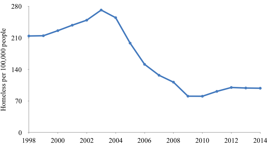 Graph of Homeless in England per 100,000 people 1998-2014 using ONS Tables of Statistics on Homelessness and ONS Population Estimates